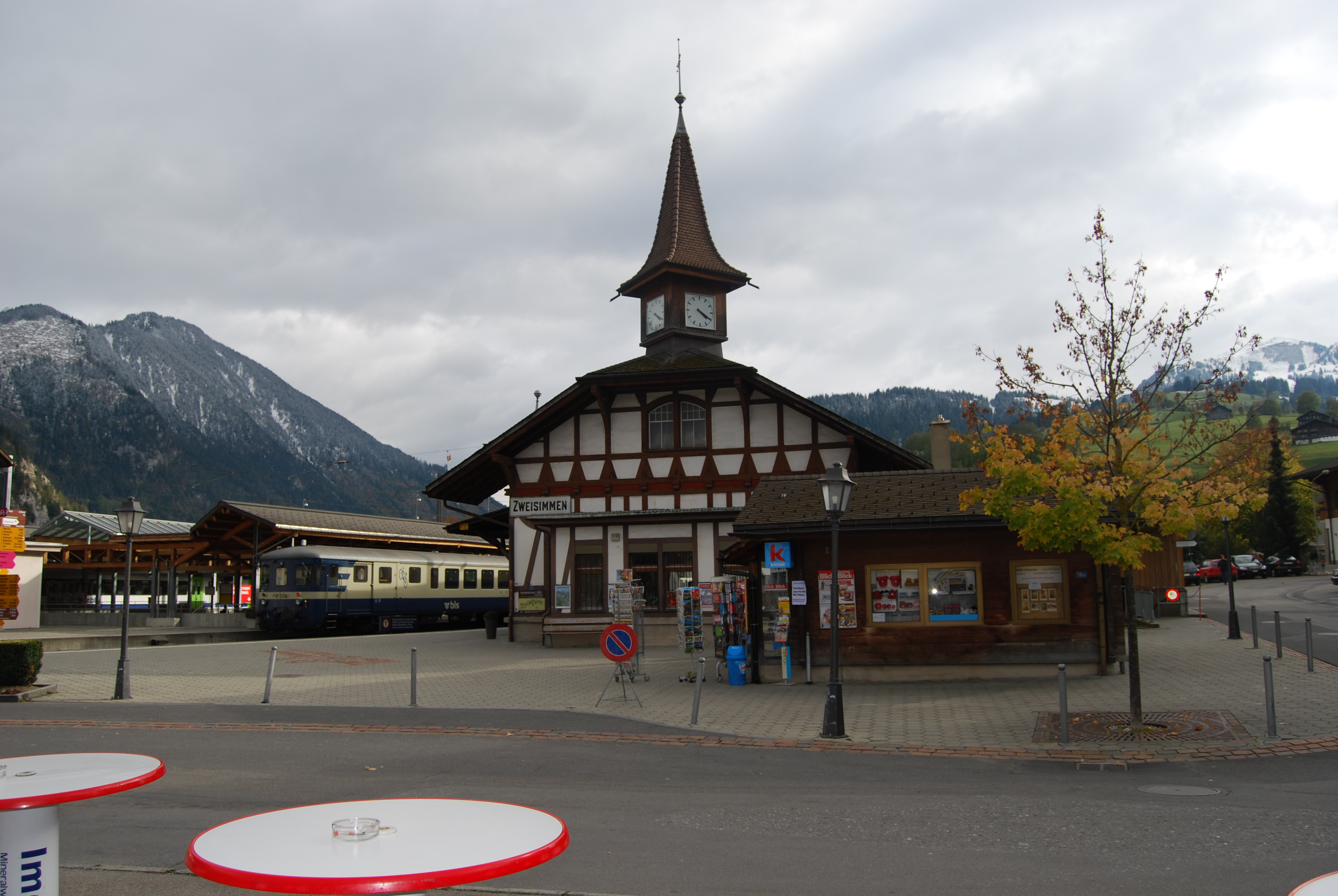 Train station of Zweisimmen, canton of Bern, SwitzerlandEsperanto: Stacidomo de Zweisimmen, Kantono Berno, Svislando